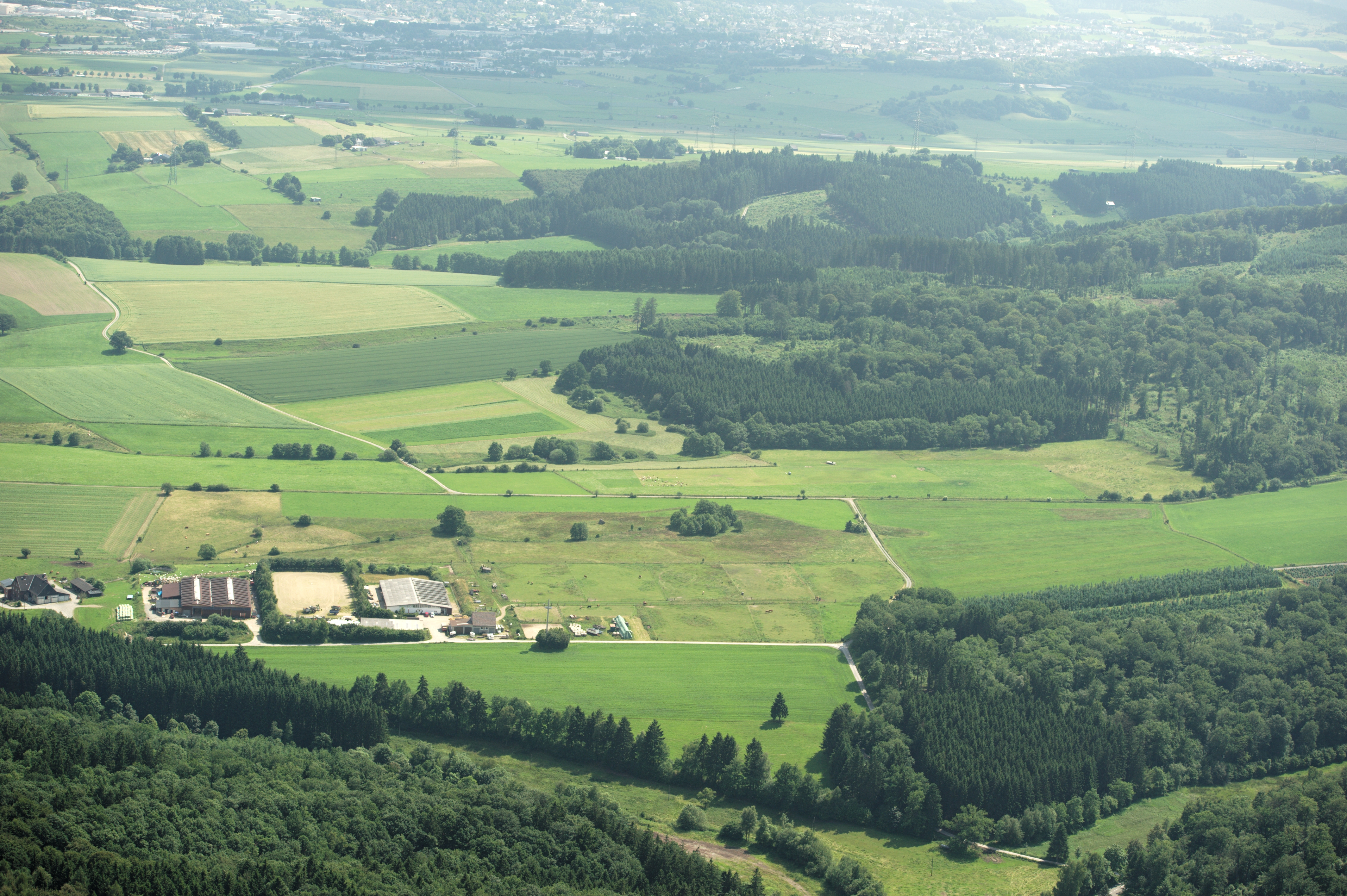 Fotoflug Sauerland-Ost - Reitanlage Möhneburg, rechts Schälhorn, dahinter Hoppenberg The making of this document was supported by the Community-Budget of Wikimedia Germany.